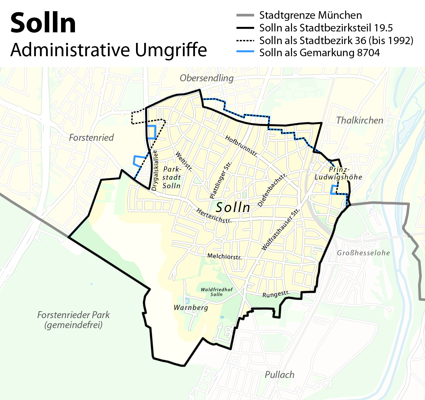 Administrative boundaries of the borough of Solln in Munich